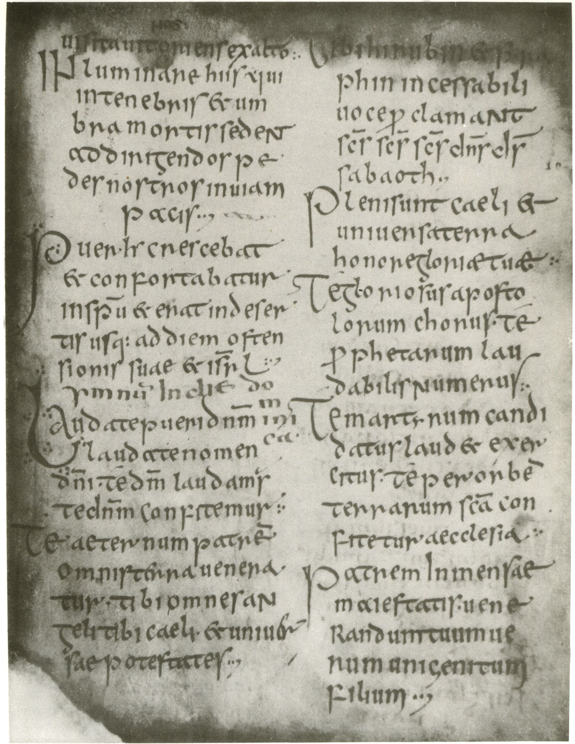 Insular Script (Irish) in an Orationale from Bangor Abbey. Manuscript Milan, Biblioteca Ambrosiana, C 5 inf., fol. 10r.